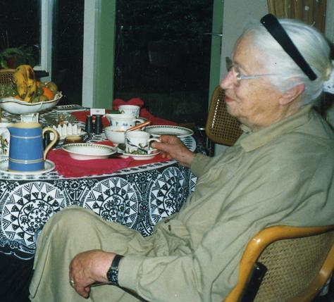 Photo of Jane Drew at the breakfast table in her retirement home West Lodge, Cotherstone, England.